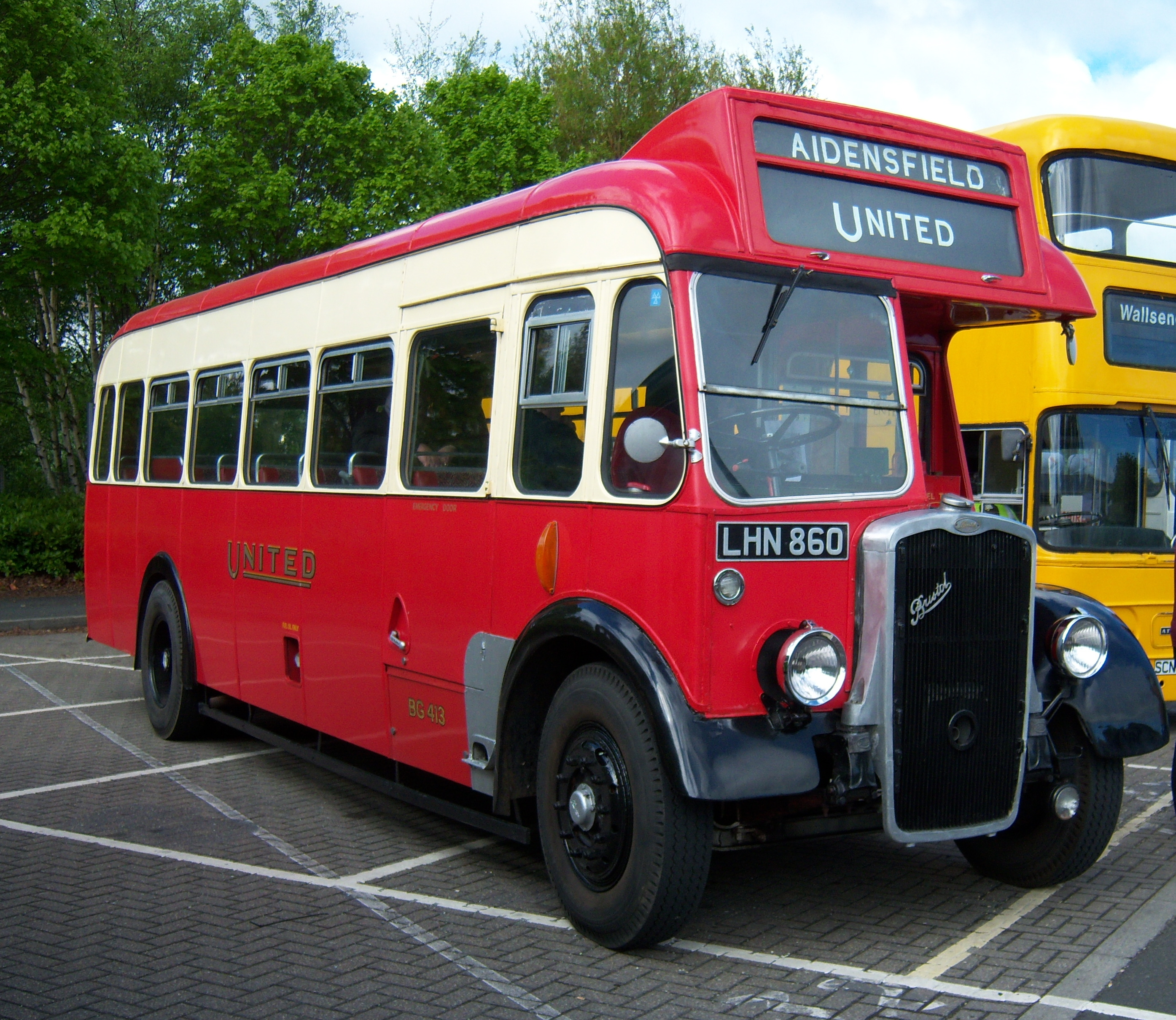 Preserved United Automobile Services bus BG413 (reg. LHN 860), a 1949 Bristol L5G single-decker with ECW bodywork, pictured at the 2009 Metrocentre bus rally.